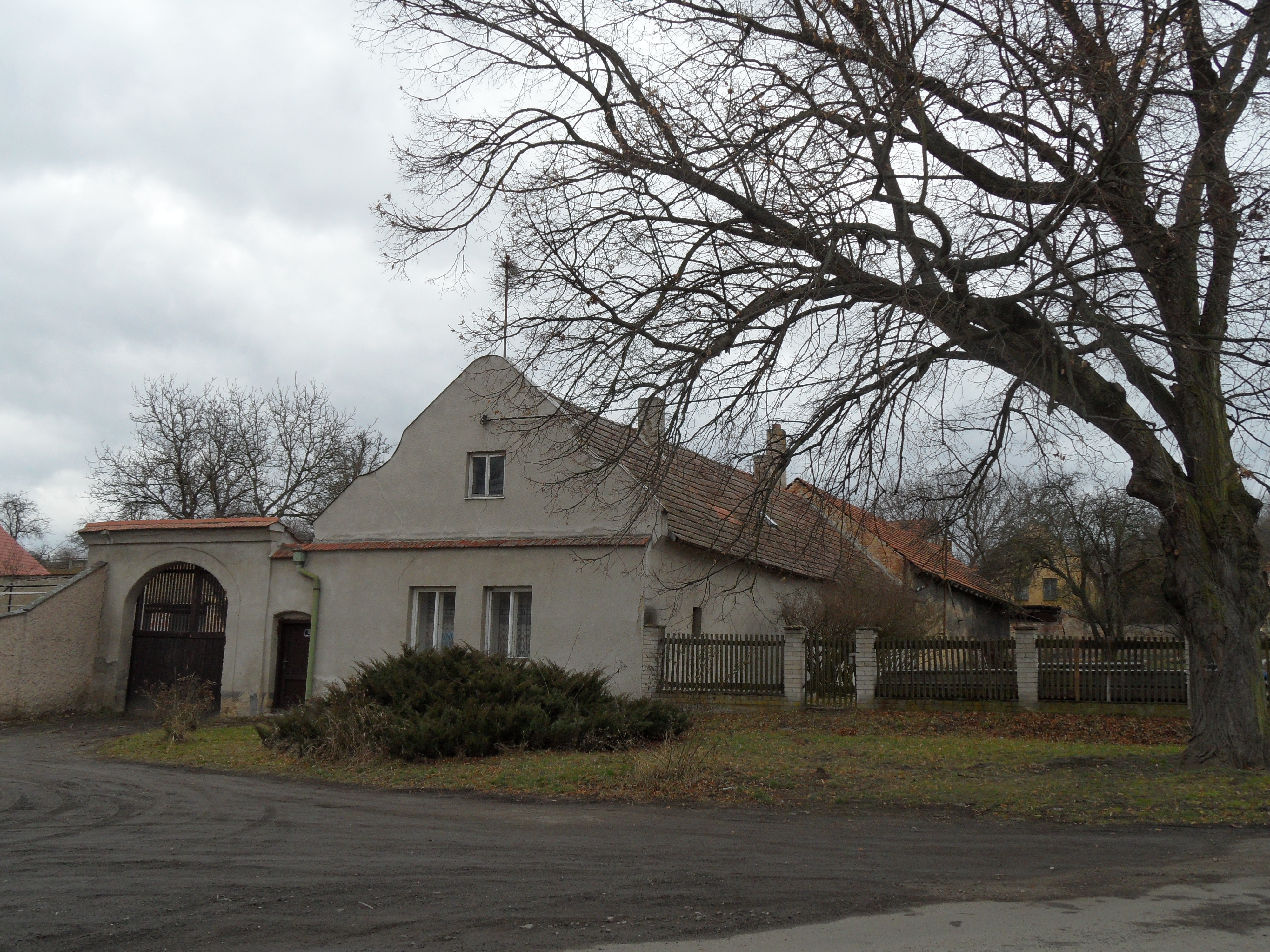 Miškovice (Třebovle) E. House at Village Square and Tree, Kolín District, the Czech Republic.